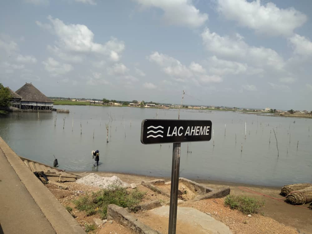 Lake Ahémé is located in southwestern Benin in the department of Mono.